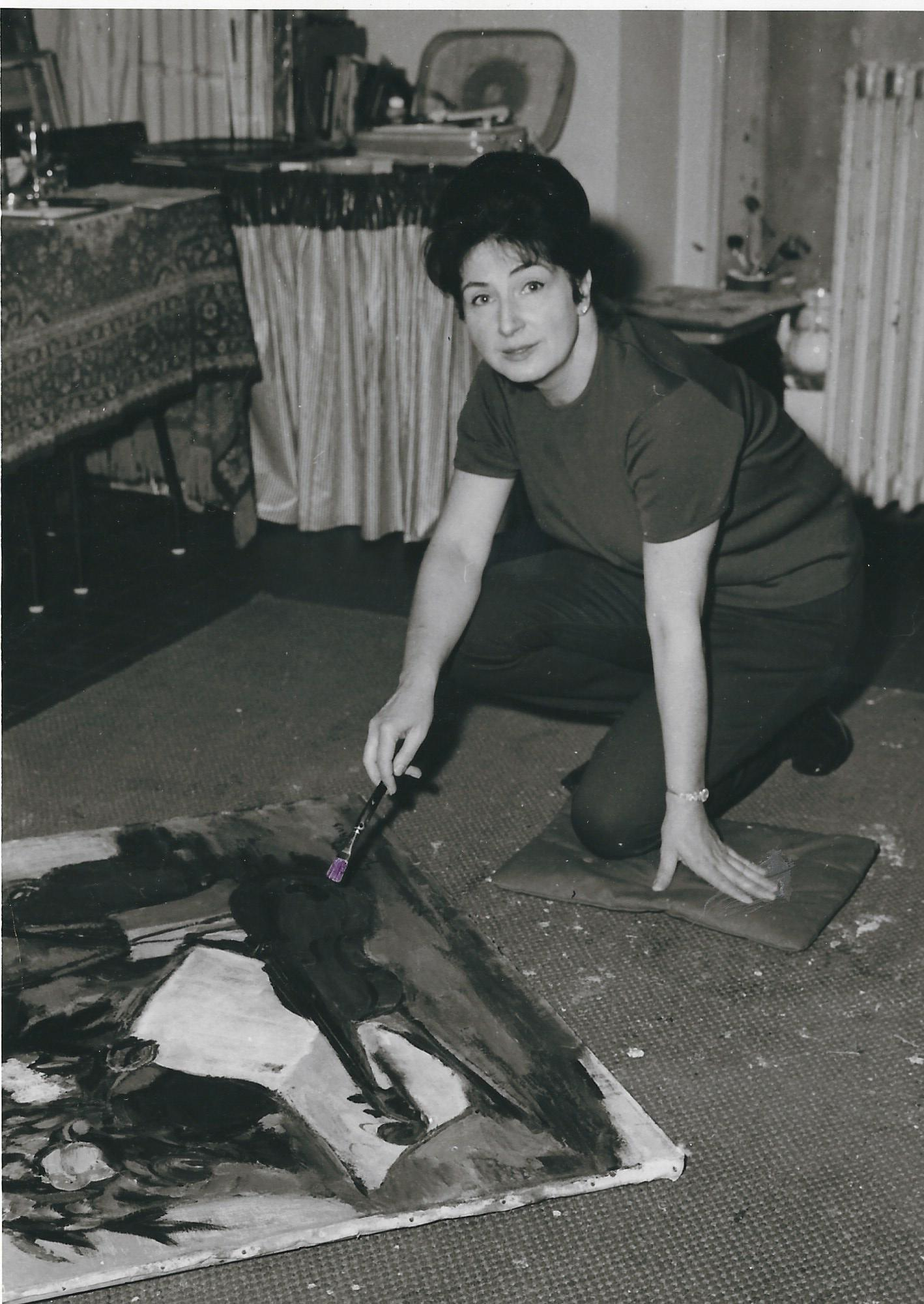 Germaine Brus in her atelier